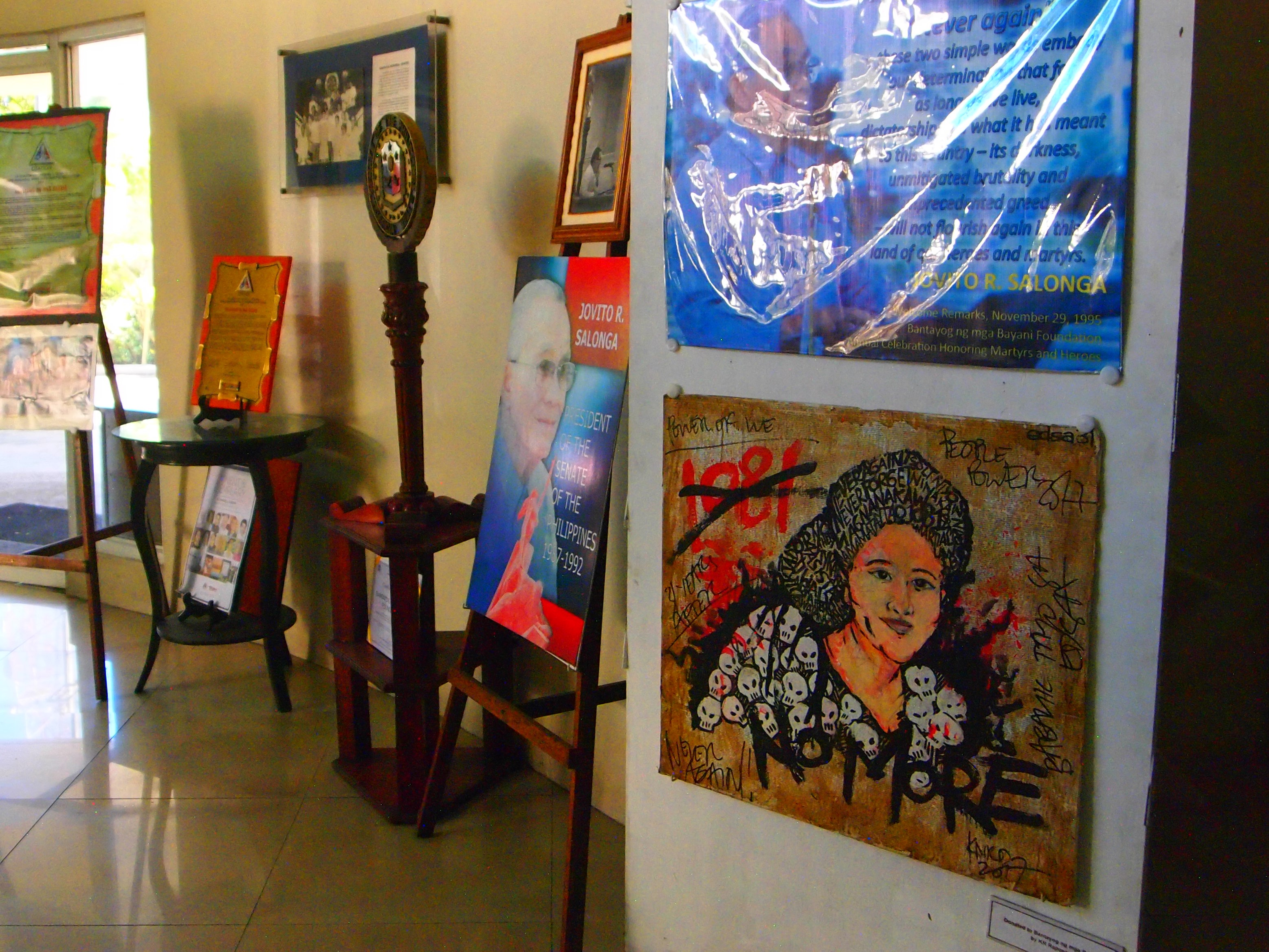 The lobby of the Jovito R. Salonga Building of the Bantayog ng mga Bayani during a routine cleaning on November 15, 2018.